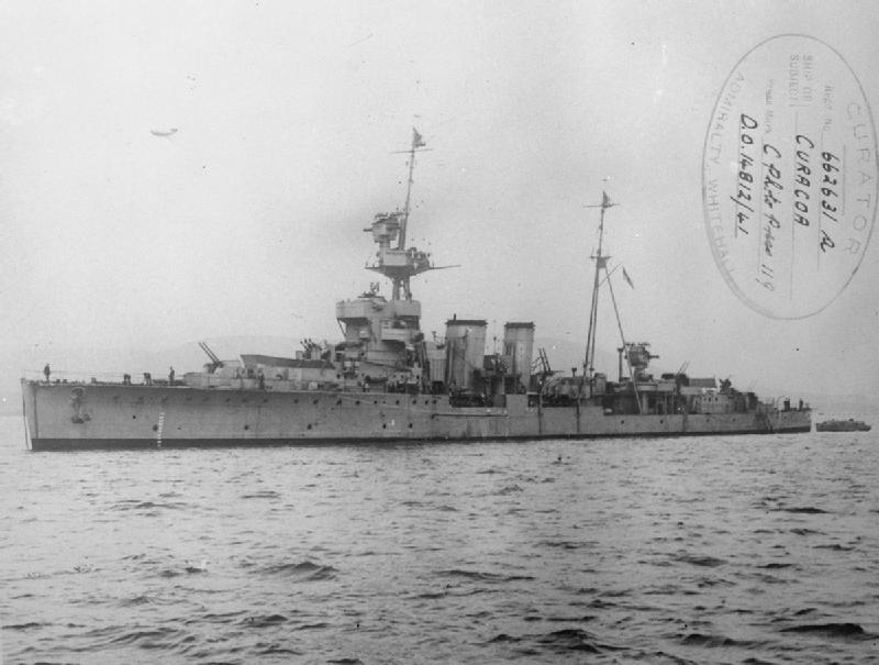 British light cruiser HMS CURACOA at anchor.